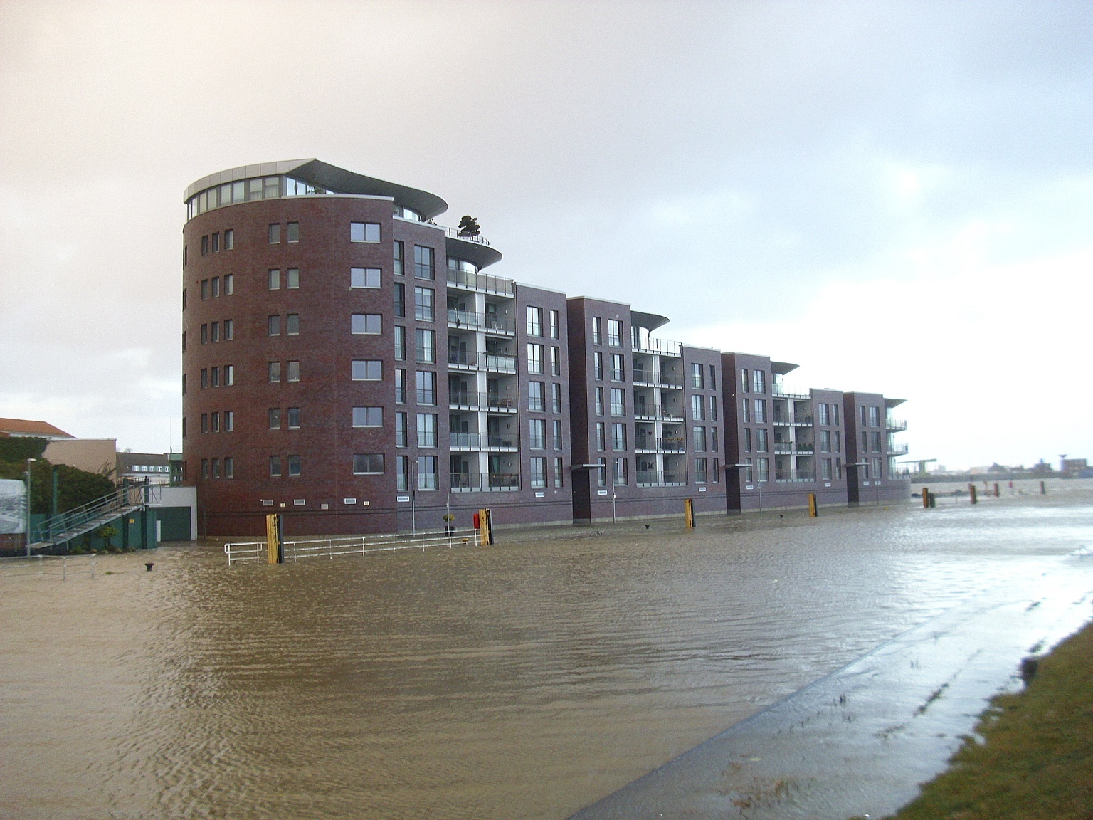 Storm tide in Bremerhaven during cyclone Bodil